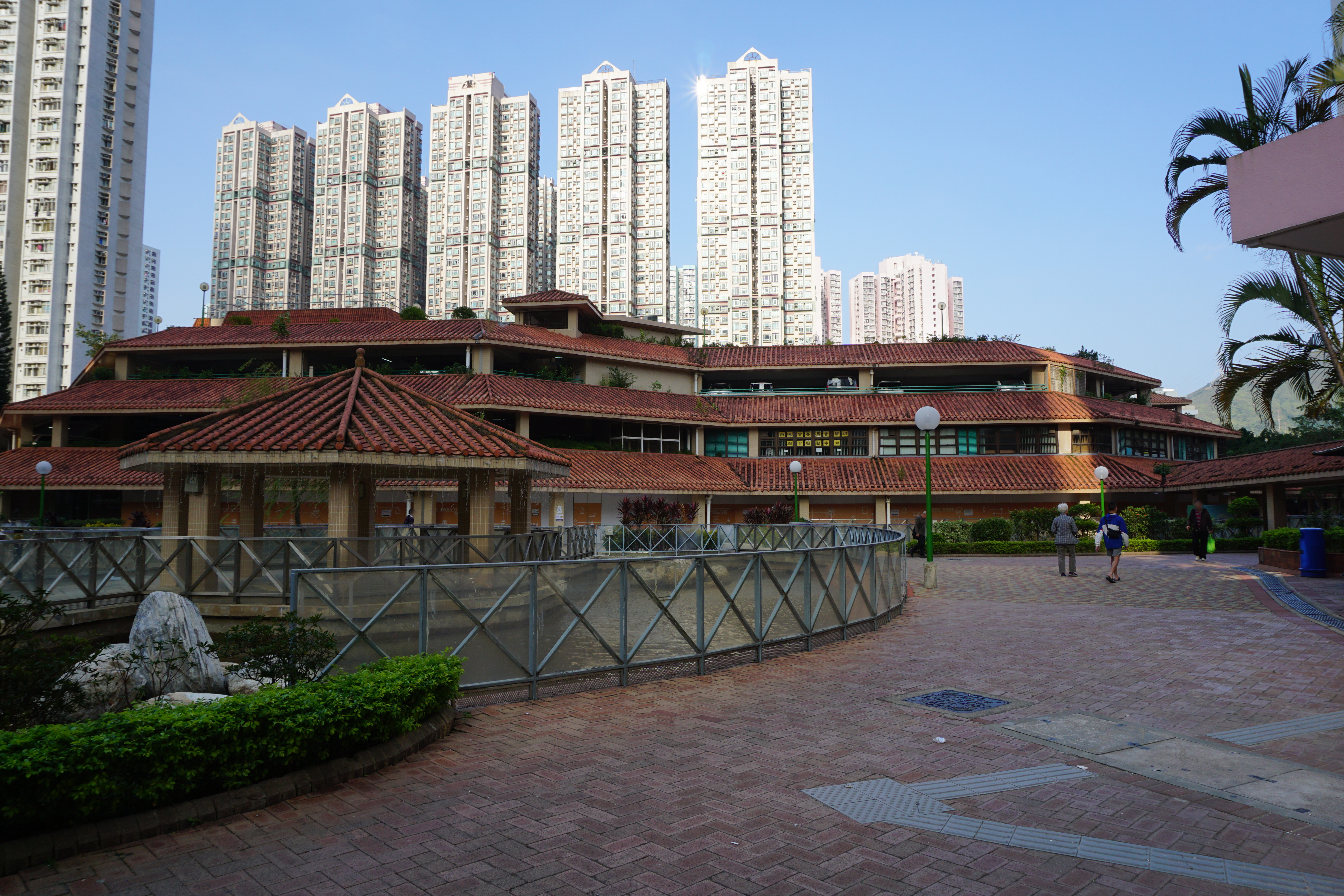 Wah Ming Estate in Fanling, Hong Kong.